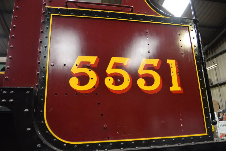 5551's drivers side cabside painted in its former LMS colours of crimson lake with its 4 digit LMS number of 5551 instead of the 5 digit BR number.